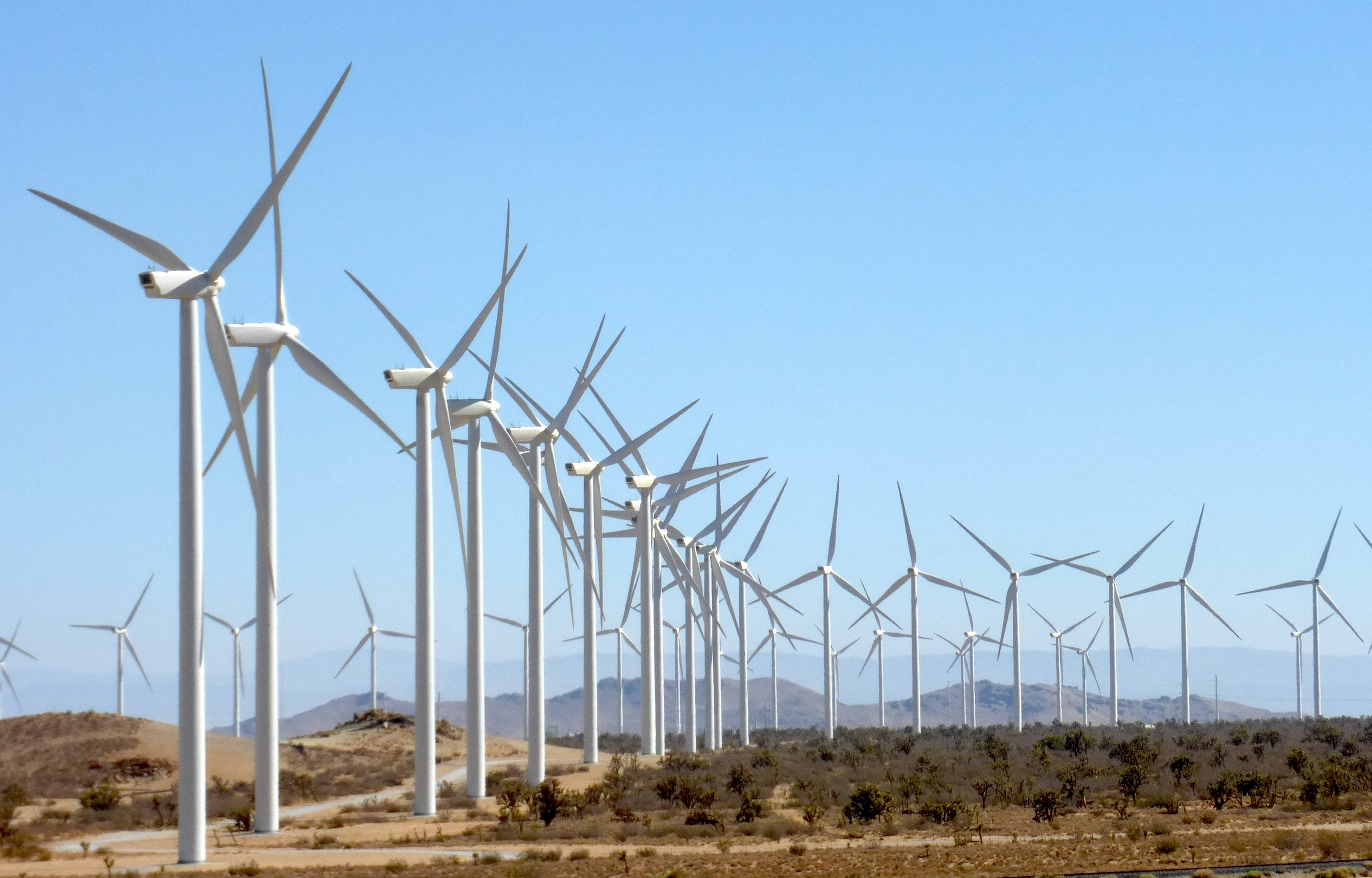 A small portion of Alta Wind Energy Center wind farm looking from Oak Creek Road.